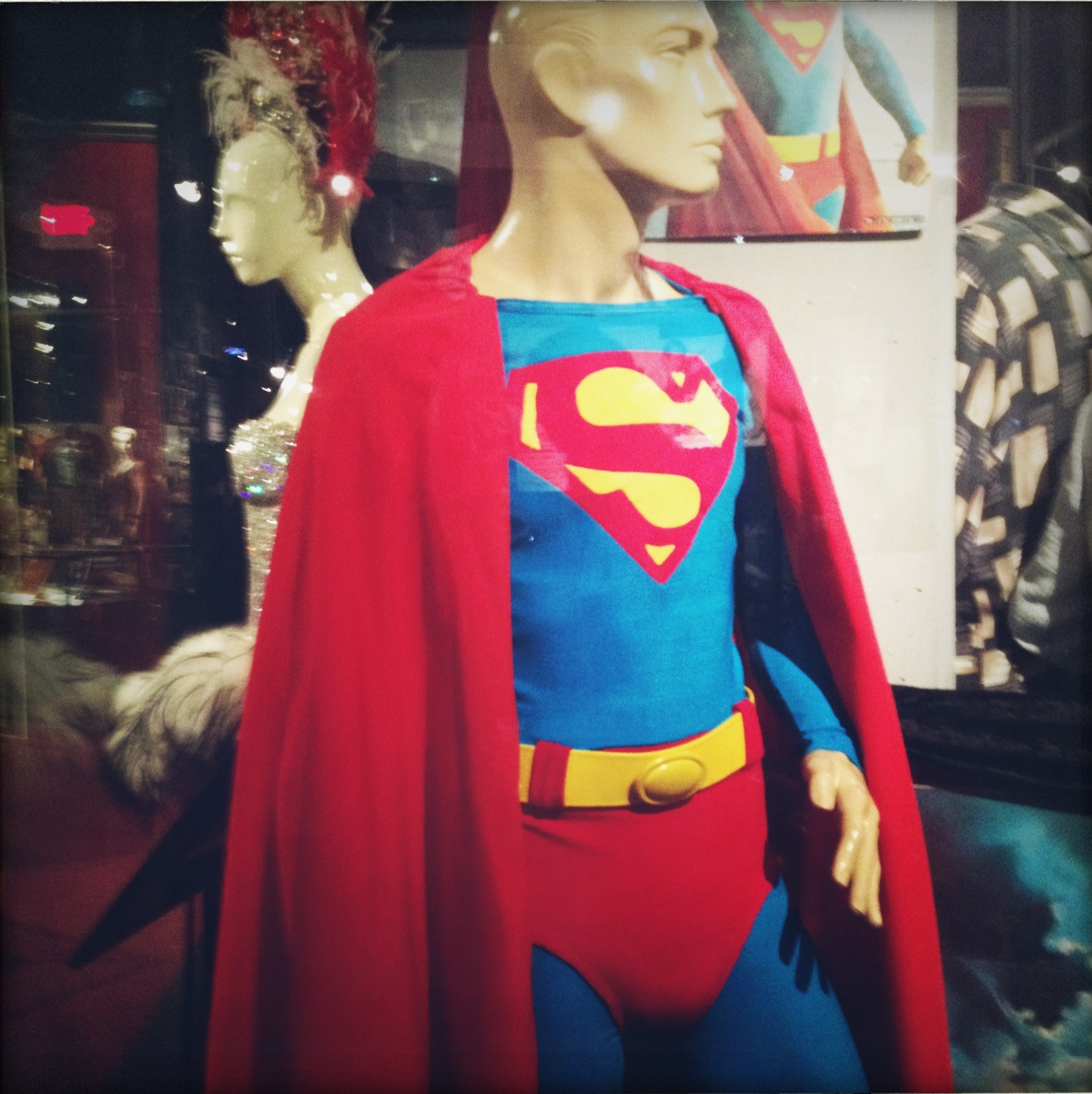 Christopher Reeve's costume from the film Superman displayed at The Hollywood Museum, 1660 N. Highland Ave (at Hollywood Blvd), Hollywood, California, USA.